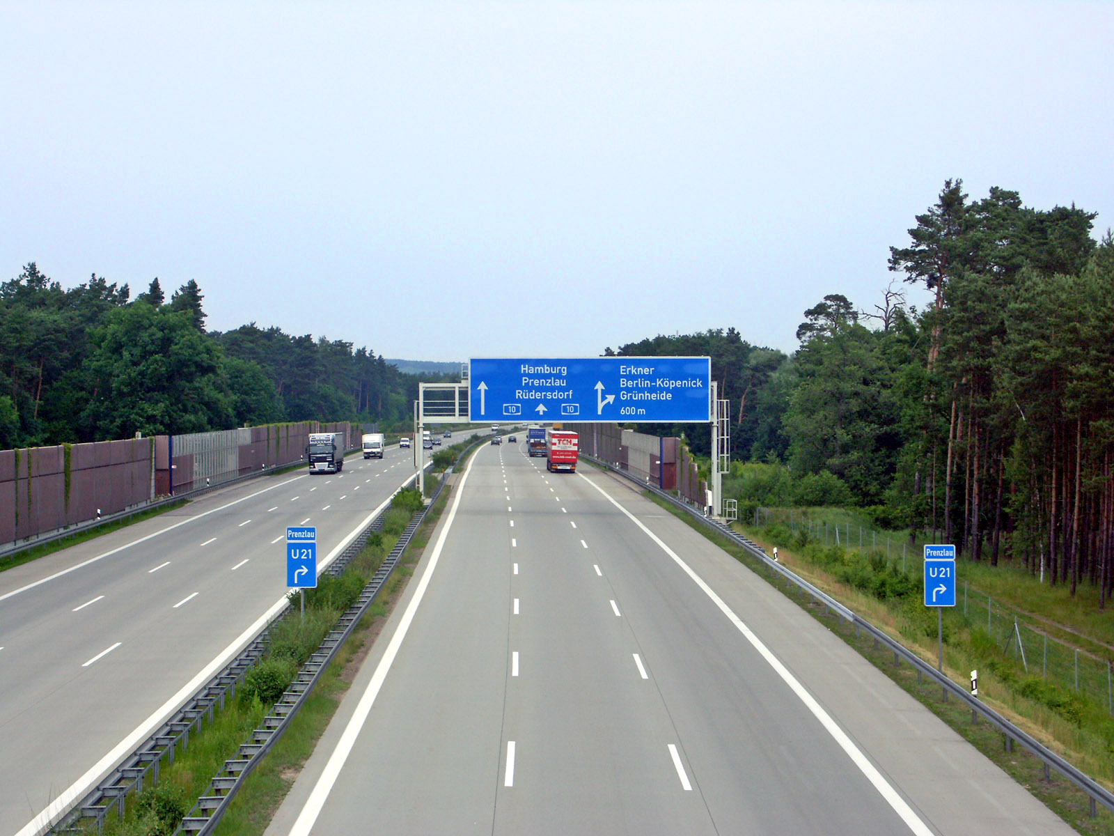 The Berlin Ring motorway (A 10) east of the city, close to the exit Erkner. Photo taken from a pedestrians bridge in the forrest between Erkner and Grünheide, Brandenburg.